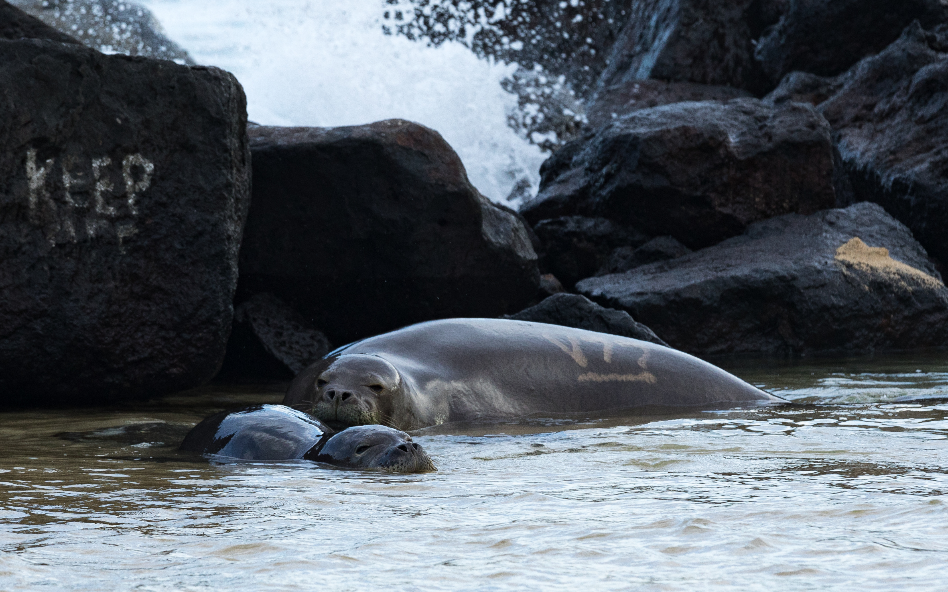 Two Hawaiian monk seals (Neomonachus schauinslandi) near Poʻipū (Brennecke’s Beach), Kauaʻi